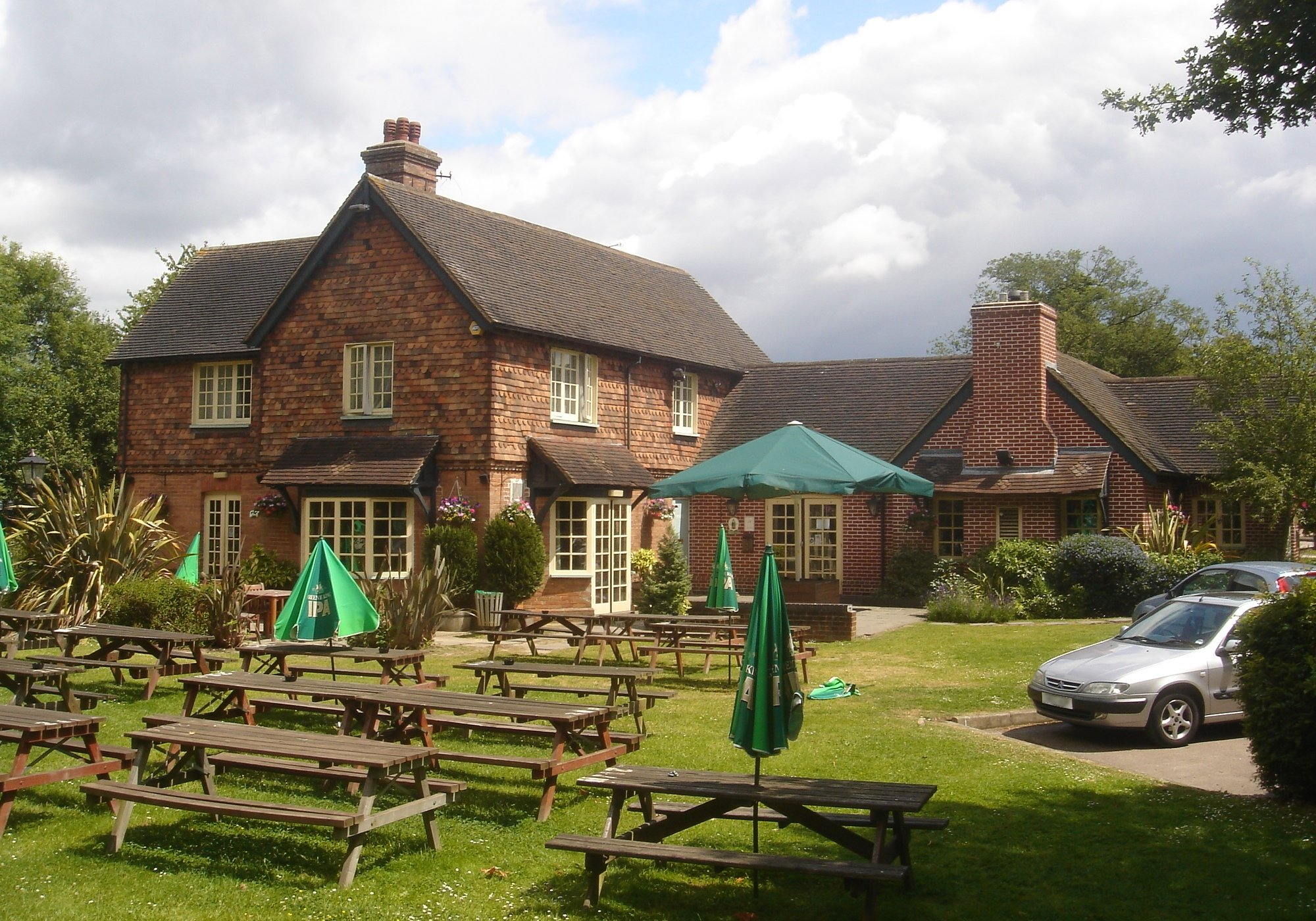 Heathy Ground Farmhouse, Balcombe Road, Pound Hill, Crawley, West Sussex, England. A 16th-century farmhouse, now a pub. Listed at Grade II by English Heritage (IoE Code 363417)